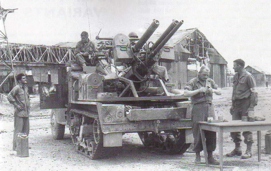 T28E1 CGMC of 443rd AAA Battalion in St Raphael, Southern France, 17 Aug 1944.